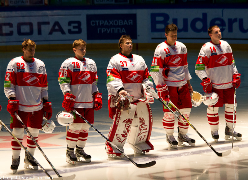 HC Spartak Moscow players before KHL game against Amur Khabarovsk on October 10, 2011. LTR: Pavel Medvedev, Alexander Komaristy, Ivan Kasutin, Mikhail Zhukov, Štefan Ružička